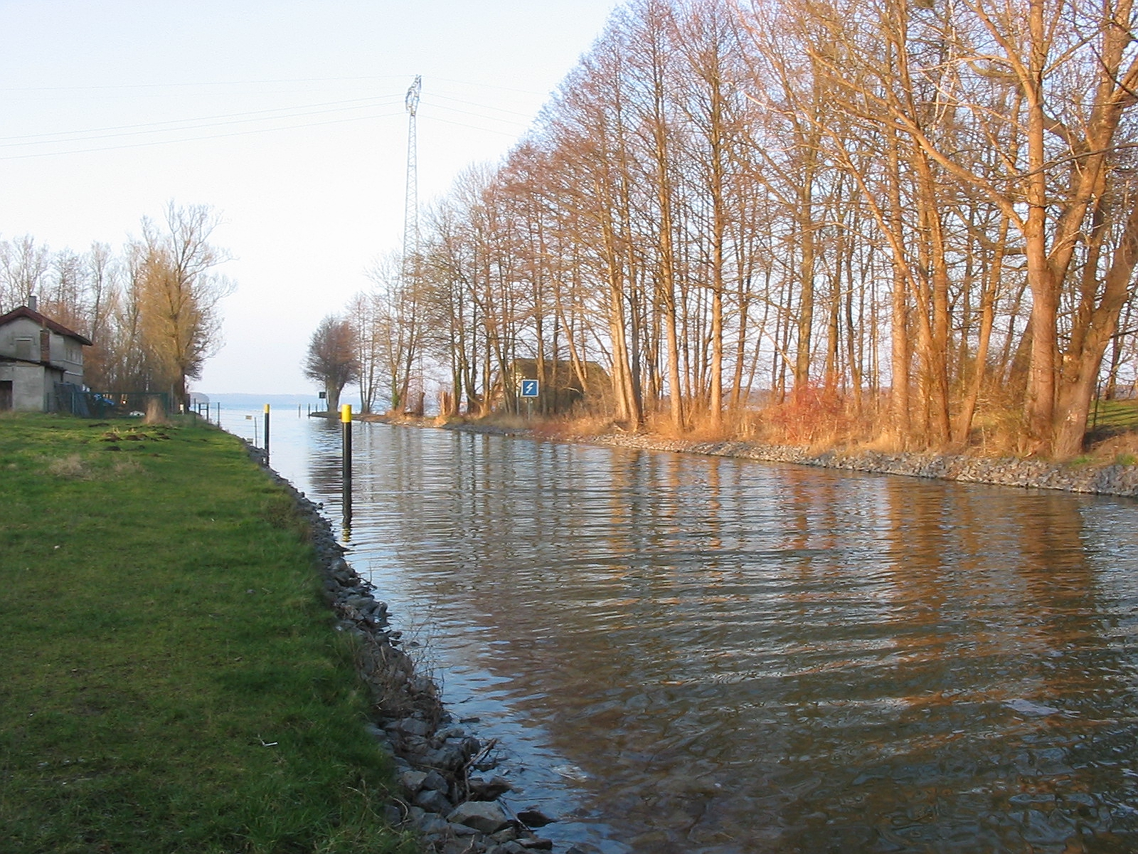 Paulsdammgraben near Schwerin, Germany